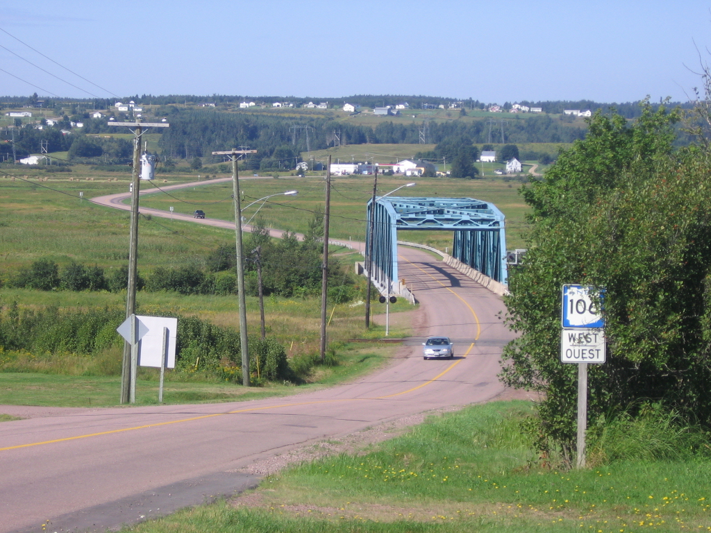 Self-made photo.